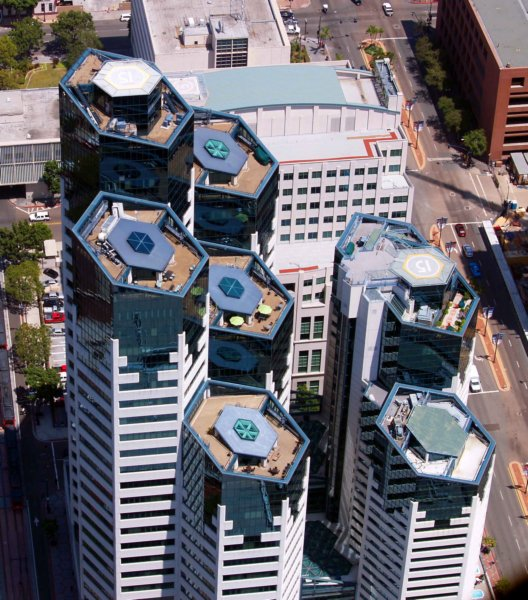 Photo of Emerald Plaza in San Diego as seen from 1000 feet. Please acknowledge "Phil Konstantin" as the creator of this photograph.